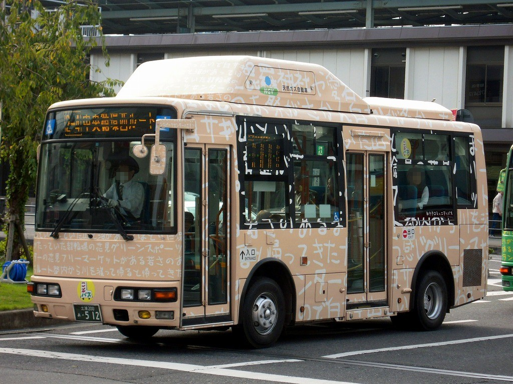 Kanto railway bus (Toride city community bus) Mitsubishi Fuso Aero Midi ME (CNG,PA-ME17DF-kai)